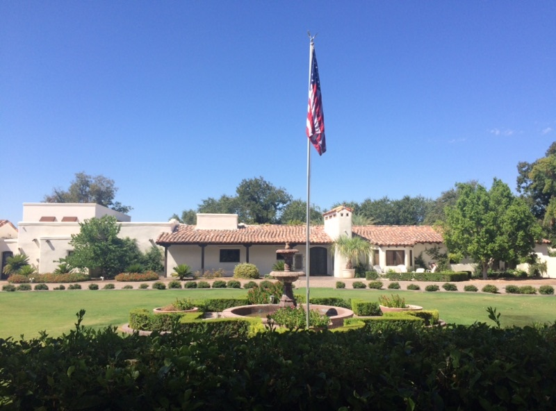 Residence of the late Senator John and Cindy McCain built in 1951 and located at 7110 N. Central Ave. Phoenix, AZ.